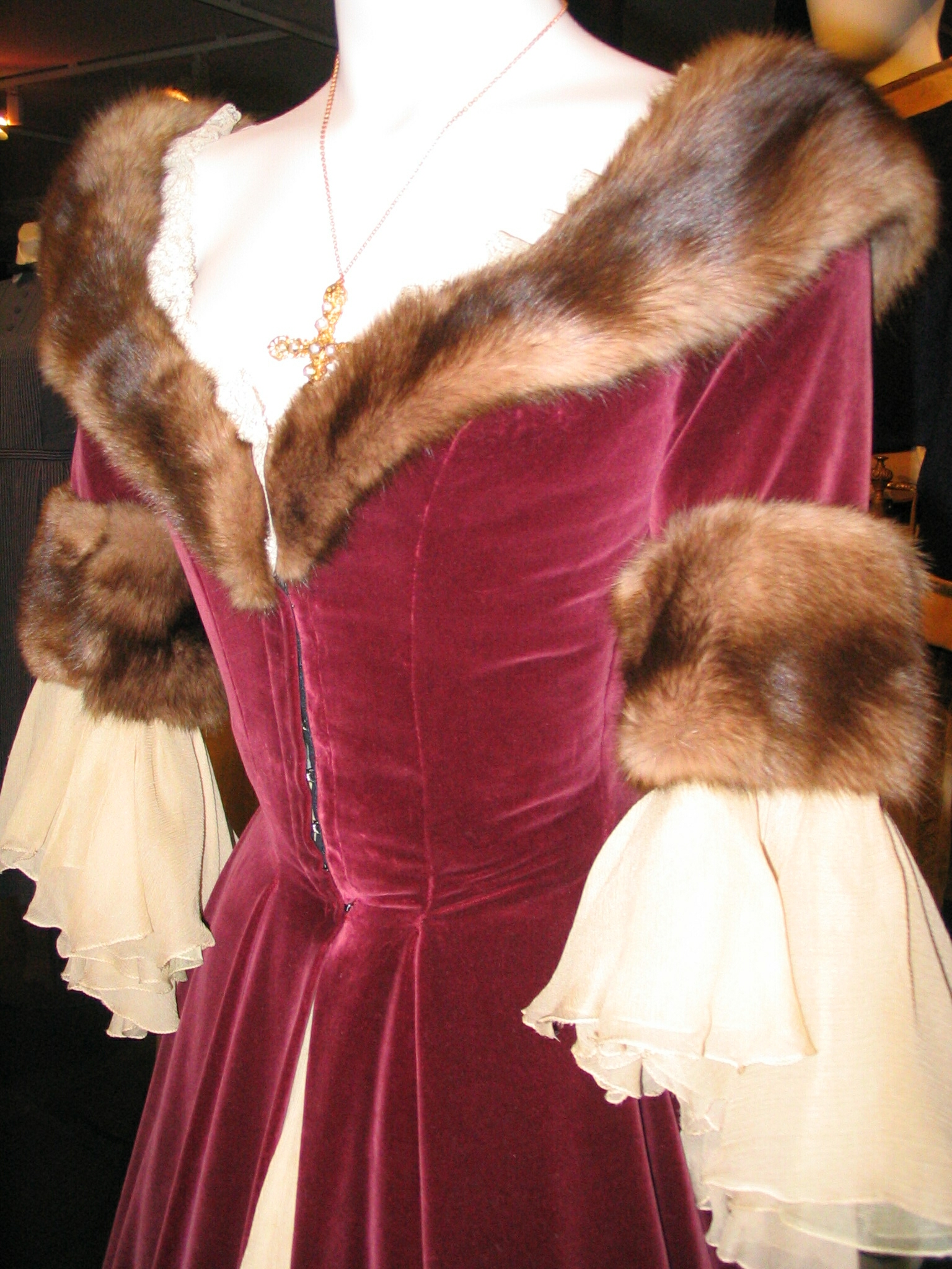 Costume from the film Magnificent Sinner (1959) directed by Romy Schneider. Costume designer: Rosine Delamare. Filmmuseum Landeshauptstadt Düsseldorf, Germany.